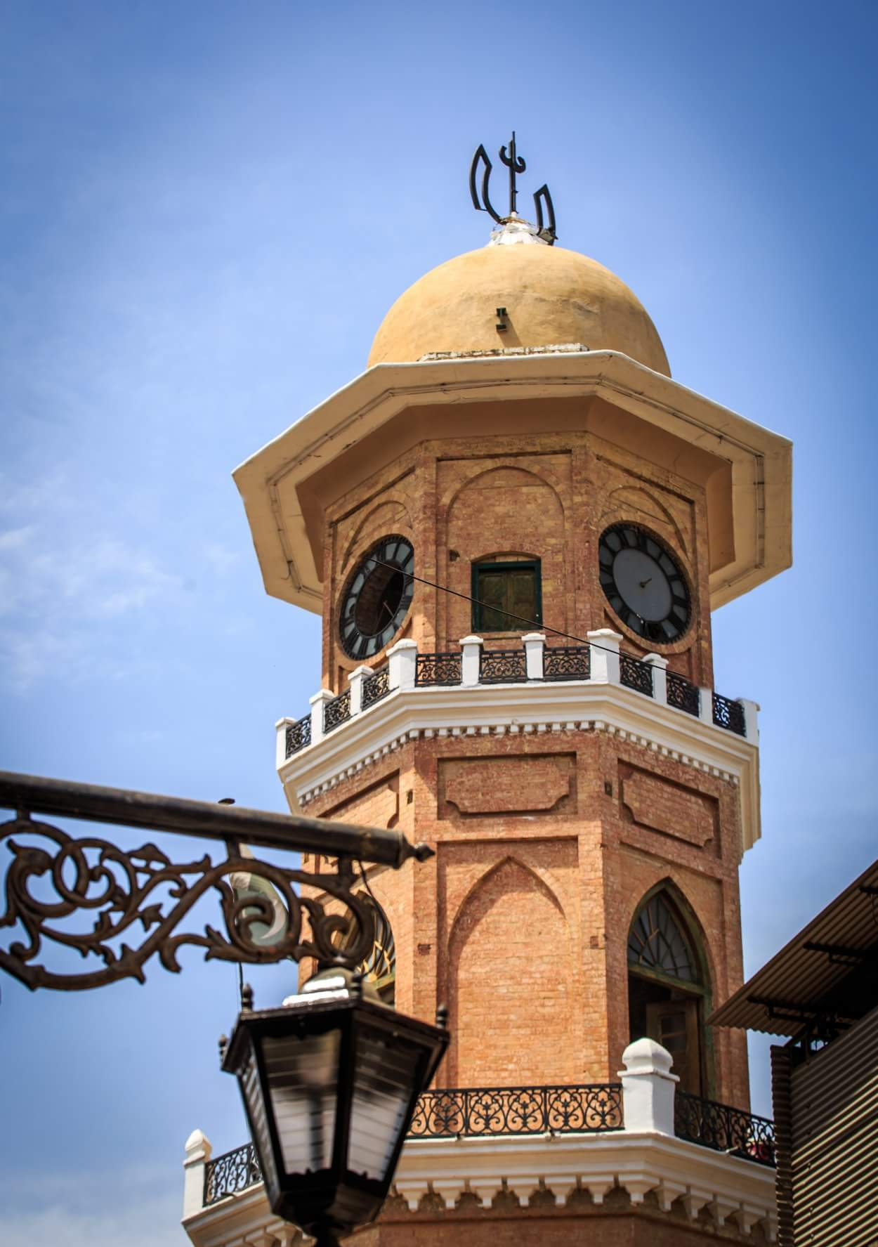 ClockTower renovated in 2018.